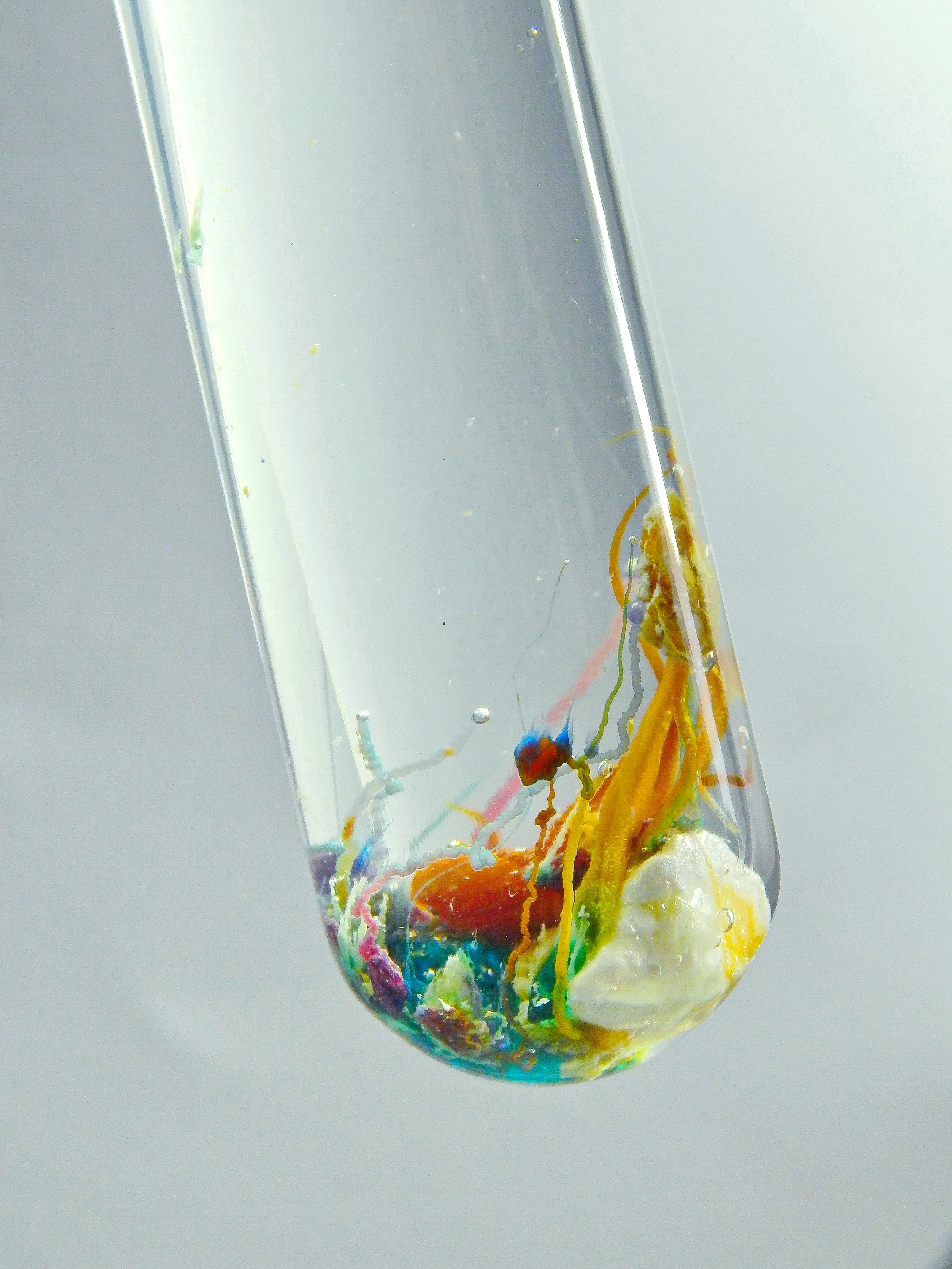 chem garden